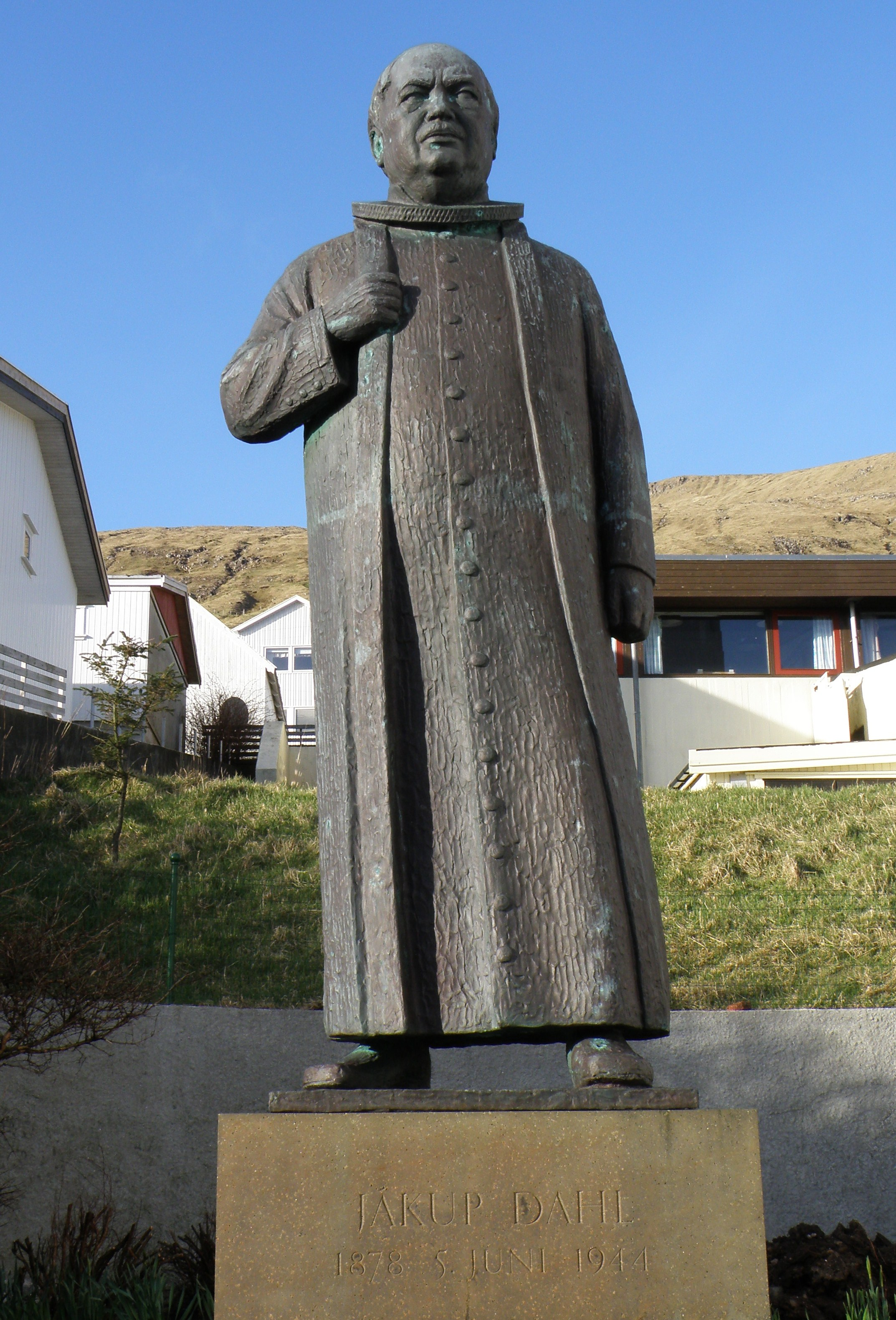 Memorial in memory of Jákup Dahl from Vágur, Faroe Islands. Provost Dahl was one of the first who translated the Holy Bilbe to Faroese. This statue is located just outside the church in Vágur. Provost Dahl was born in Vágur in 1878 and grew up there. Føroyskt: Standmynd til minnis um Jákup Dahl, próst. Standmyndin stendur beint vestanfyri Vágs Kirkju, tætt við inngongdina. Jákup Dahl var ein av teimum fyrstu sum umsetti Bíbliuna til føroyskt.